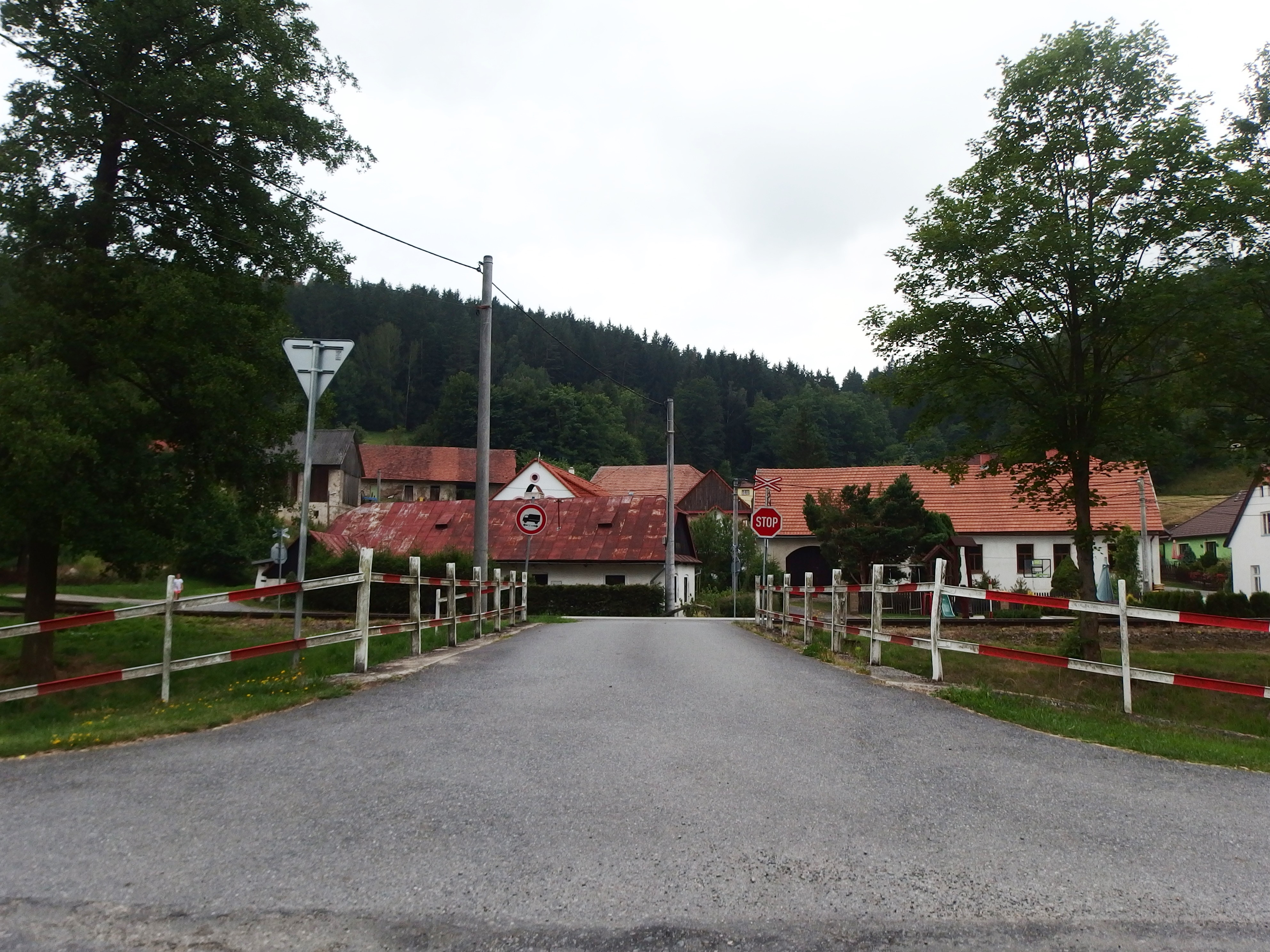 Věžná, Žďár nad Sázavou District, Czechia, part Jabloňov.